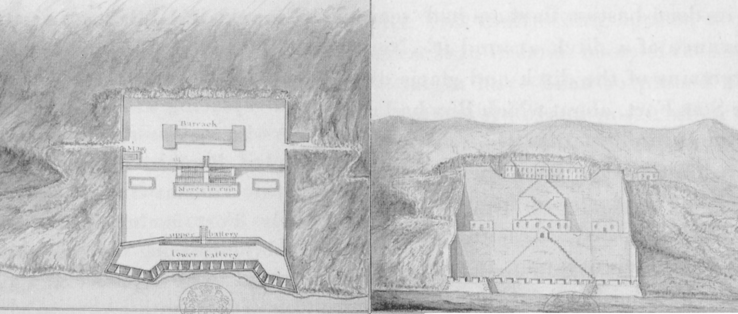 Plan and view of Cove Fort in Cork Harbour, Ireland from a survey in 1777 by Lieut-Col Charles Vallancey (1731-1812)